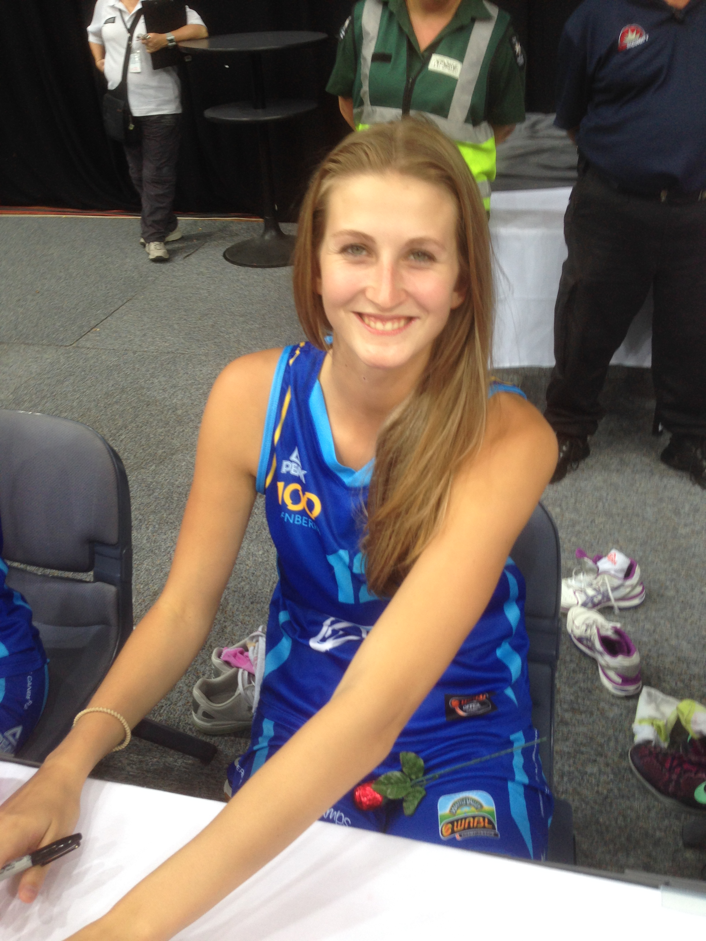 Canberra Capitals No 12 Carley Mijovic